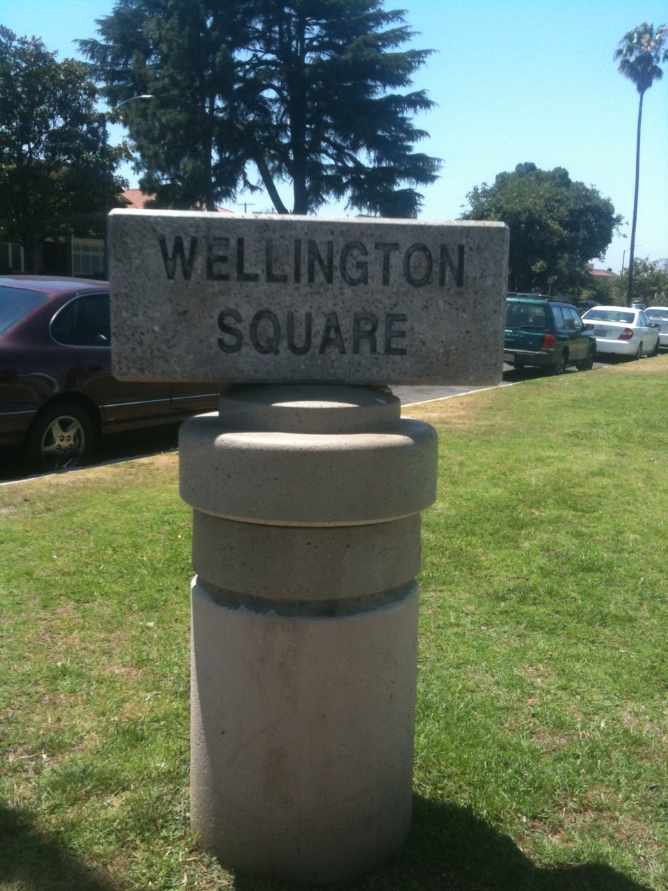 This is my picture of a sign marker for the streets in my neighborhood.